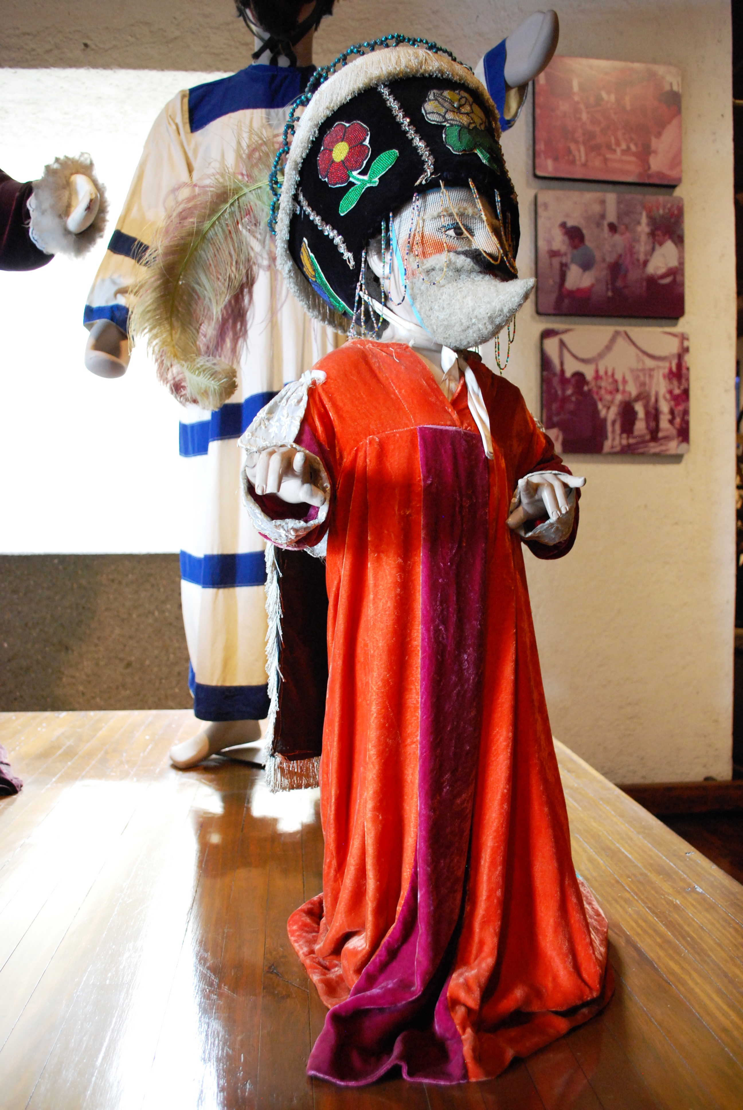 Chinelos mannequin with mask, hat and garb on display at the Palace of Cortes, Cuernavaca, Mexico